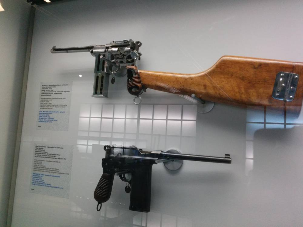 Arms made in Eibar, in the Arms Industry Museum of the city